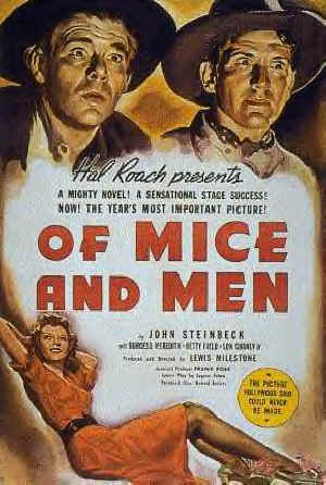 Of Mice and Men by John Steinbeck